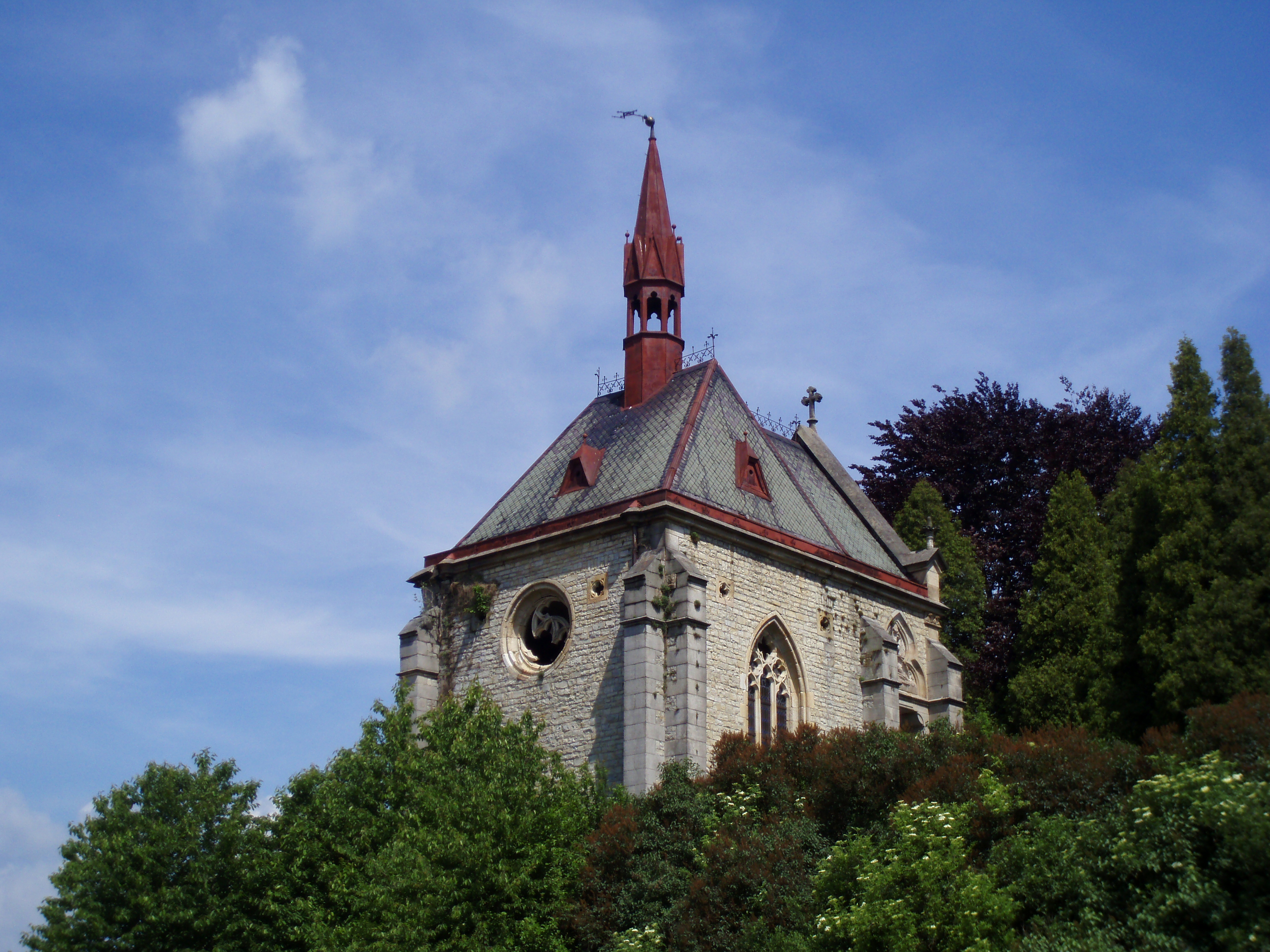 Cemetery Chapel in Chvalkovice (District of Náchod, Czechia)